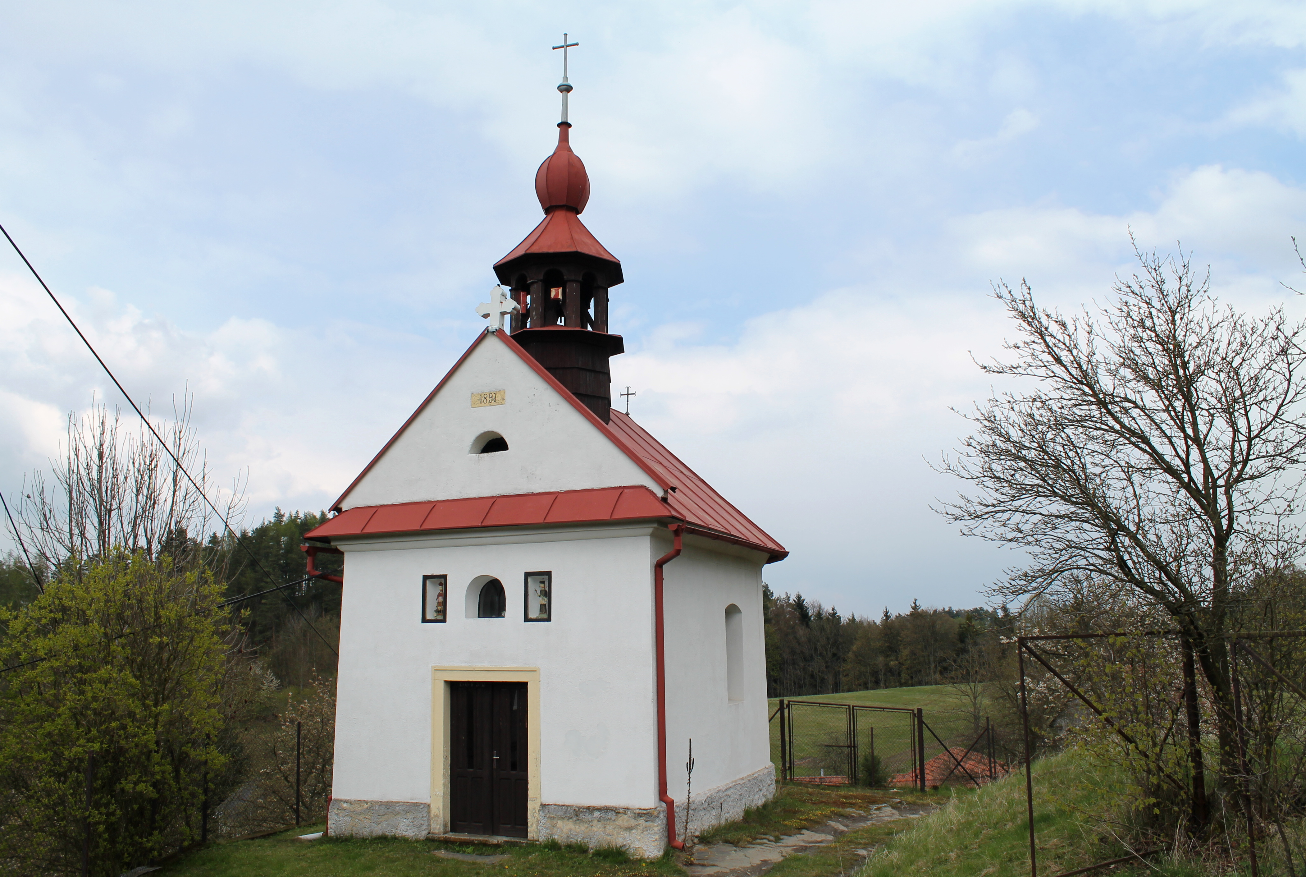 Chapel of the Assumption, Jobova Lhota, Kněževes, Blansko District, Czech Republic This photograph was taken during a group photography field trip by Brno Wikipedians: 2017-04-29.